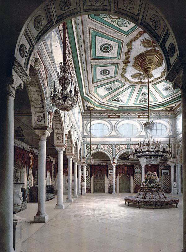 Photo of Private drawing room, Palace of the Bey of Tunis, Kasr-el-Said. This color photochrome print was made in 1899 in Kasr-el-Said, Tunisia.